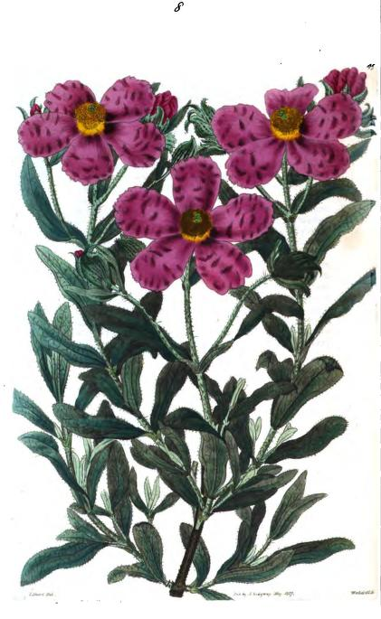 Cistus × canescens